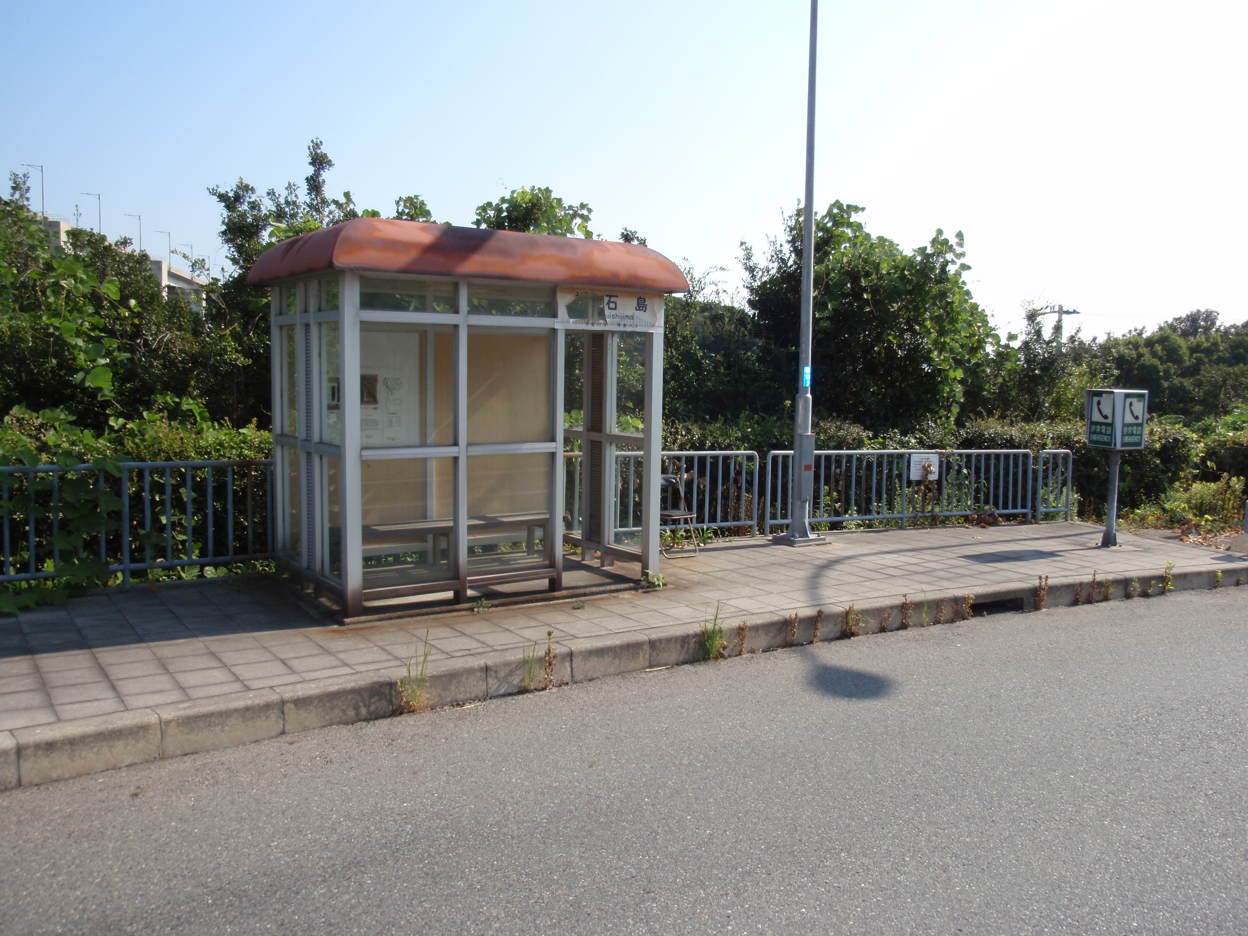 Hitsuishi Bus Stop on the Seto-Chuo Expressway in Hitsuishi Island, Kagawa Prefecture, Japan